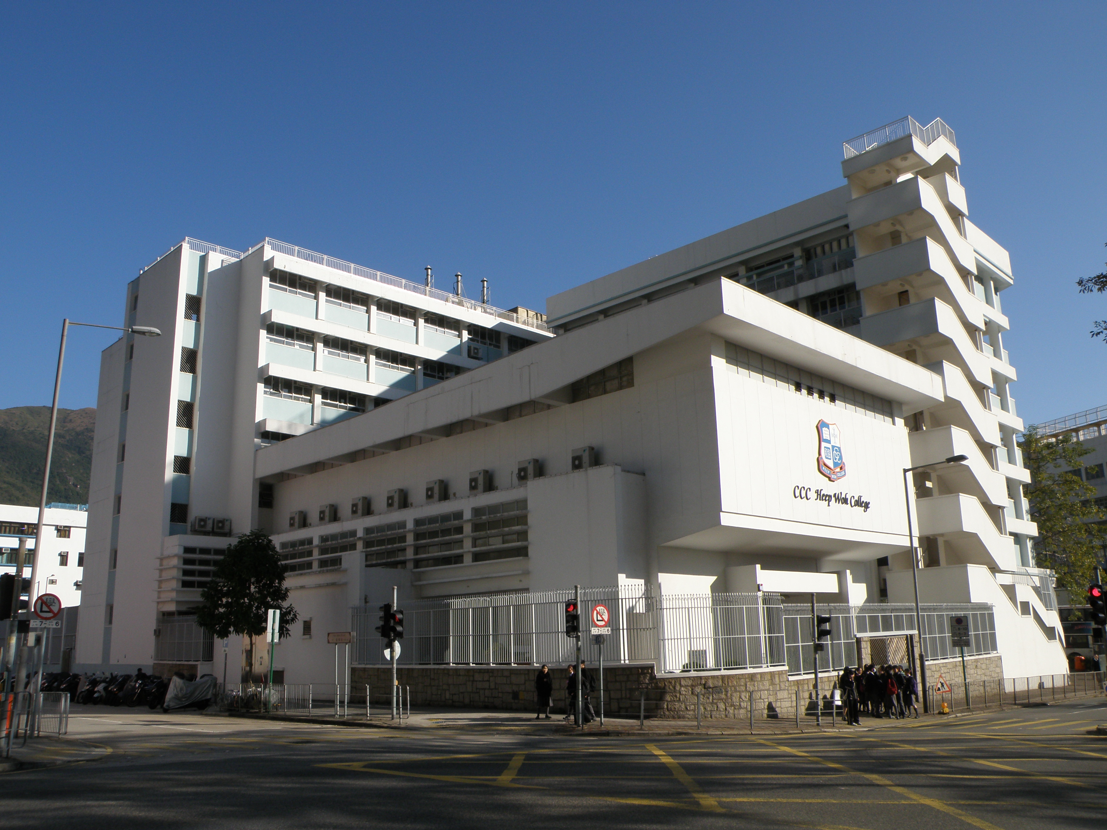 The Church of Christ in China Heep Woh College in Tsz Wan Shan, Hong Kong.